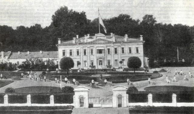 Gand Duke Nikolai Nikoalevich's hunting palace in Pershino